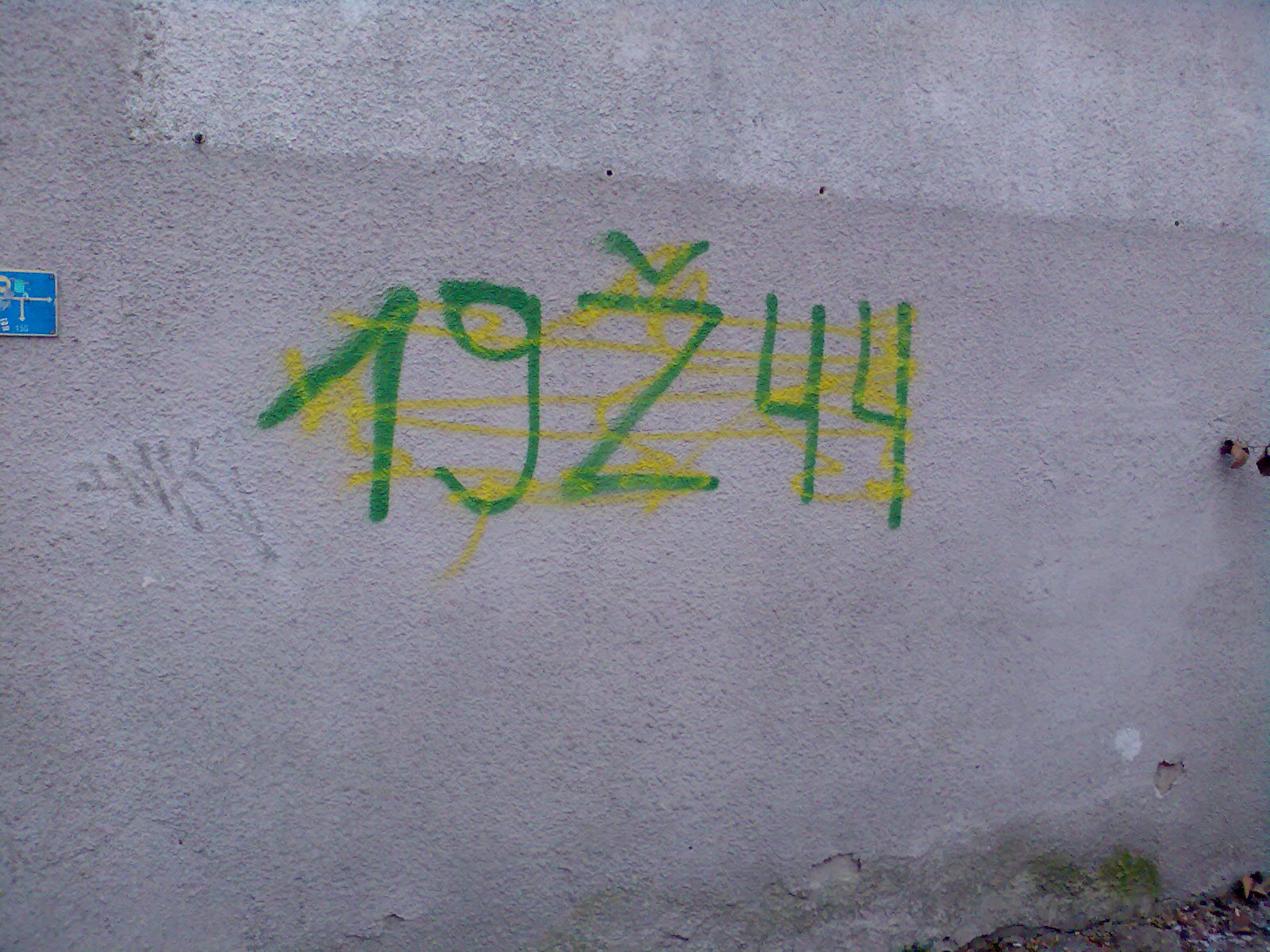 Origin of this logo is Kaunas city, Lithuania. In other countries it can be made only by Lithuanians. "19Ž44" means the foundation of Lithuanian basketball team "Žalgiris" from city Kaunas, in year 1944.